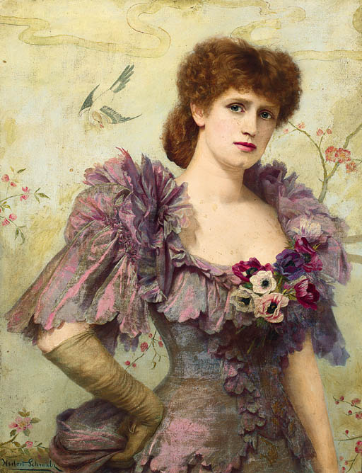 Lilly Langtry